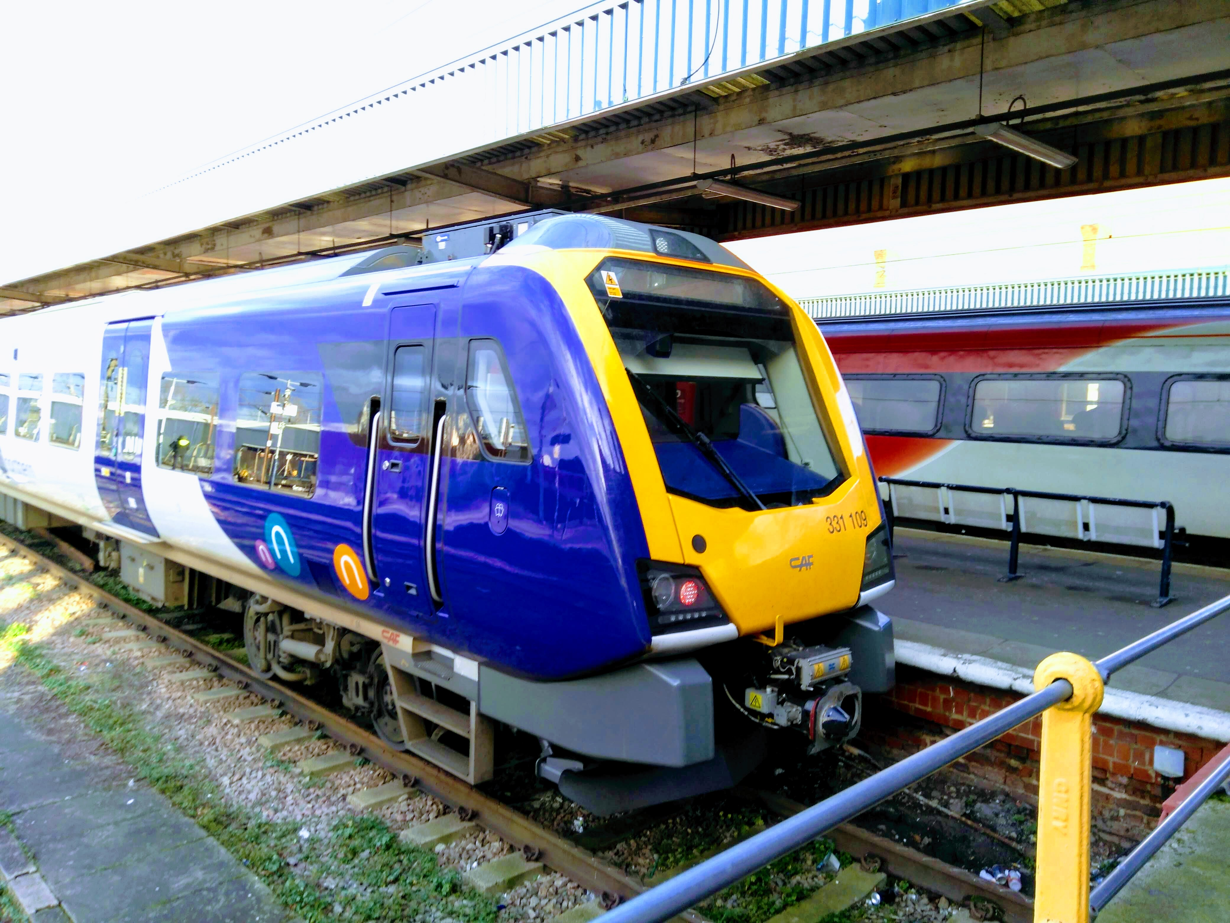 Class 331EMU 331109 at Doncaster station